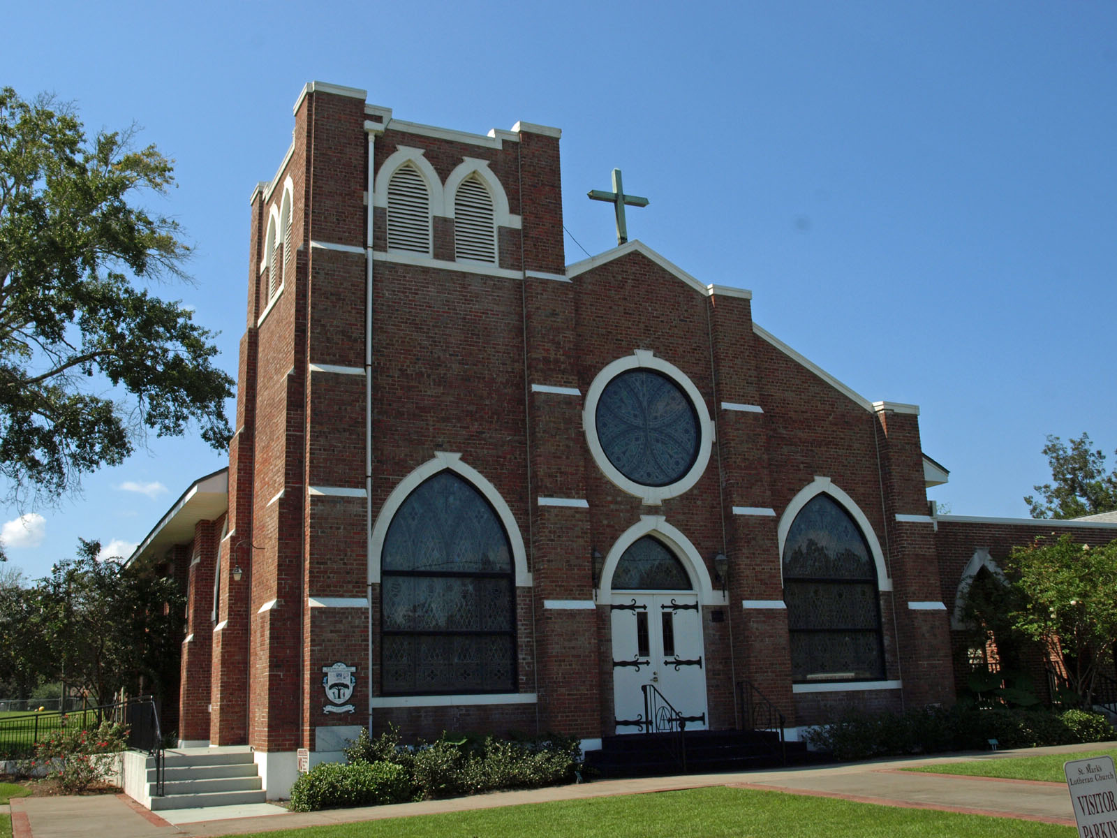 St. Mark's Lutheran Church in Elberta, Alabama, listed on the National Register of Historic Places.